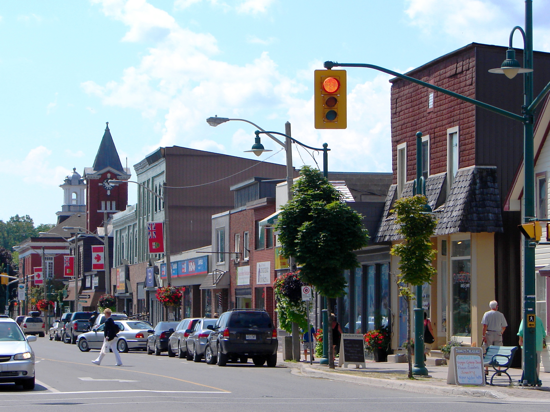 Lakefield (part of Smith-Ennismore-Lakefield Township), Ontario, Canada